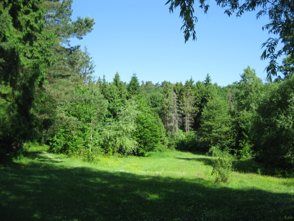 Urochische Kruglyk. Spruces